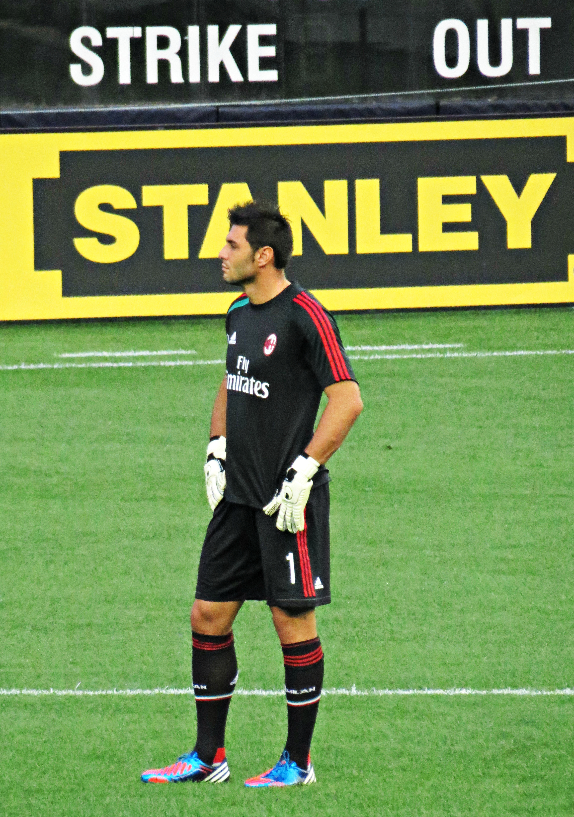 Marco Amelia, goalkeeper for AC Milan.